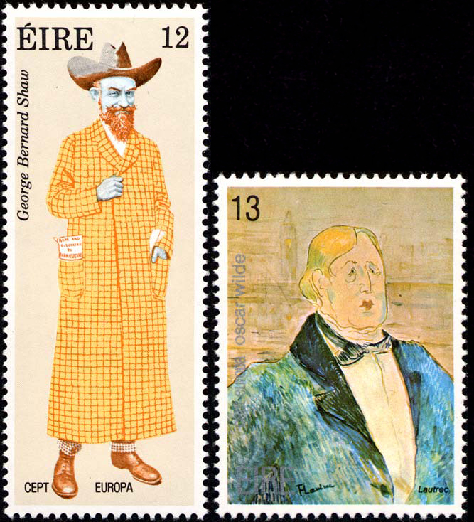 Postage stamps of Ireland, 1980. Issue on the Europe-CEPT program. 1. Portrait of Bernard Shaw. Caricature for Vanity Fair magazine, 1911. Artist Alick Penrose Ritchie. 2. Portrait of Oscar Wilde (1895). Artist Henri Toulouse-Lautrec.